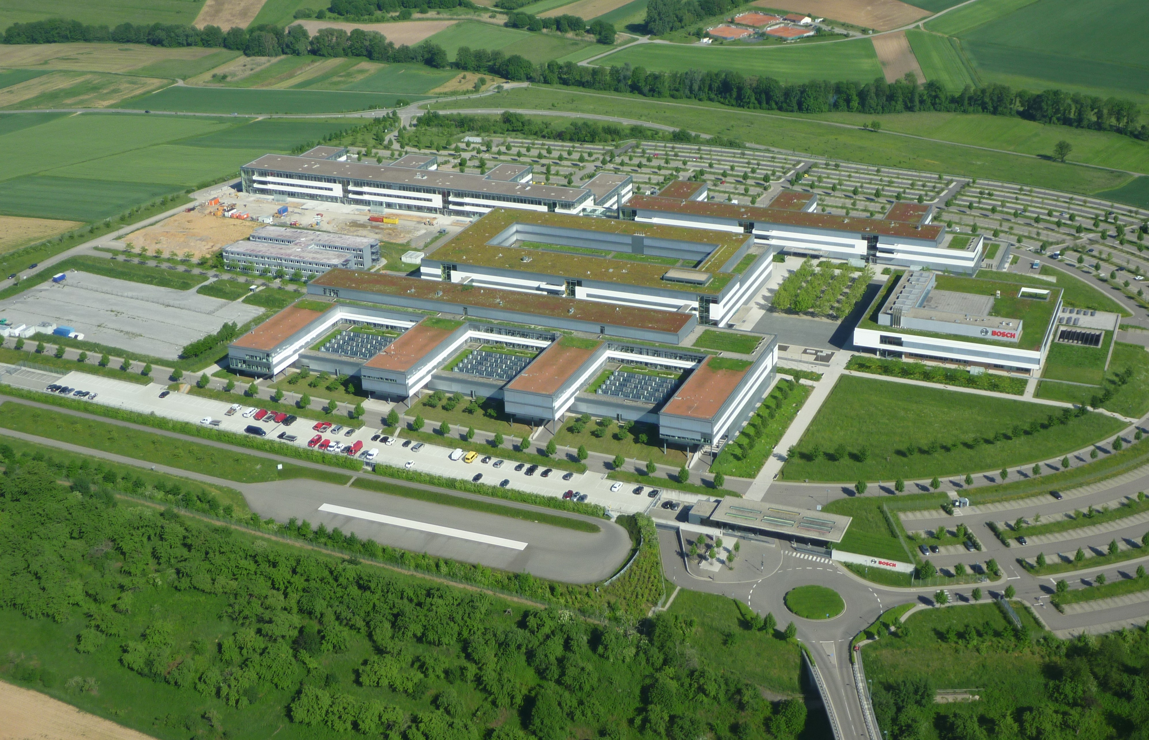 Aerial view of Robert-Bosch-GmbH in Abstatt, Germany